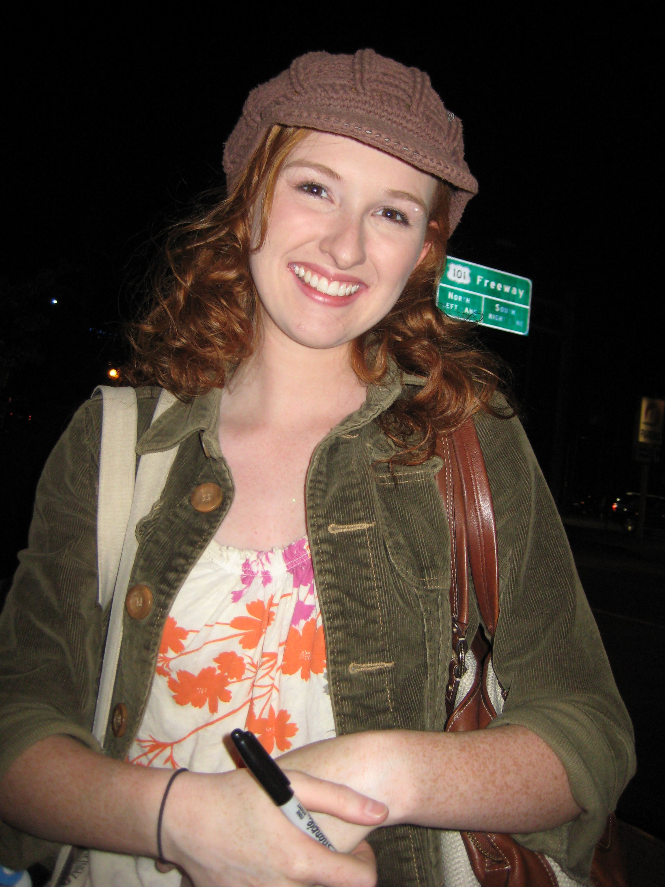 Erin Mackey at the Pantages Theater.